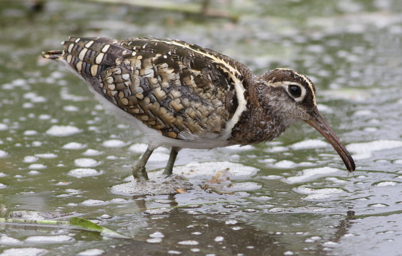 Greater Painted-snipe, Rostratula benghalensis - male